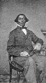 The only known photograph of Stephen Myers, a freed slave whose house in Albany, NY, USA, was a station on the Underground Railroad